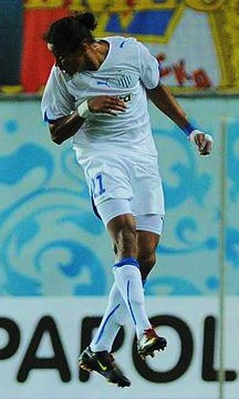 Ioannis Okkas